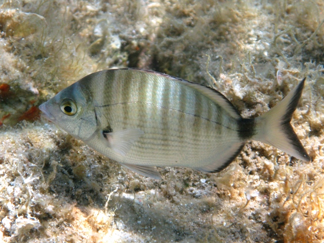 Diplodus puntazzo photographed near Sardinia island.